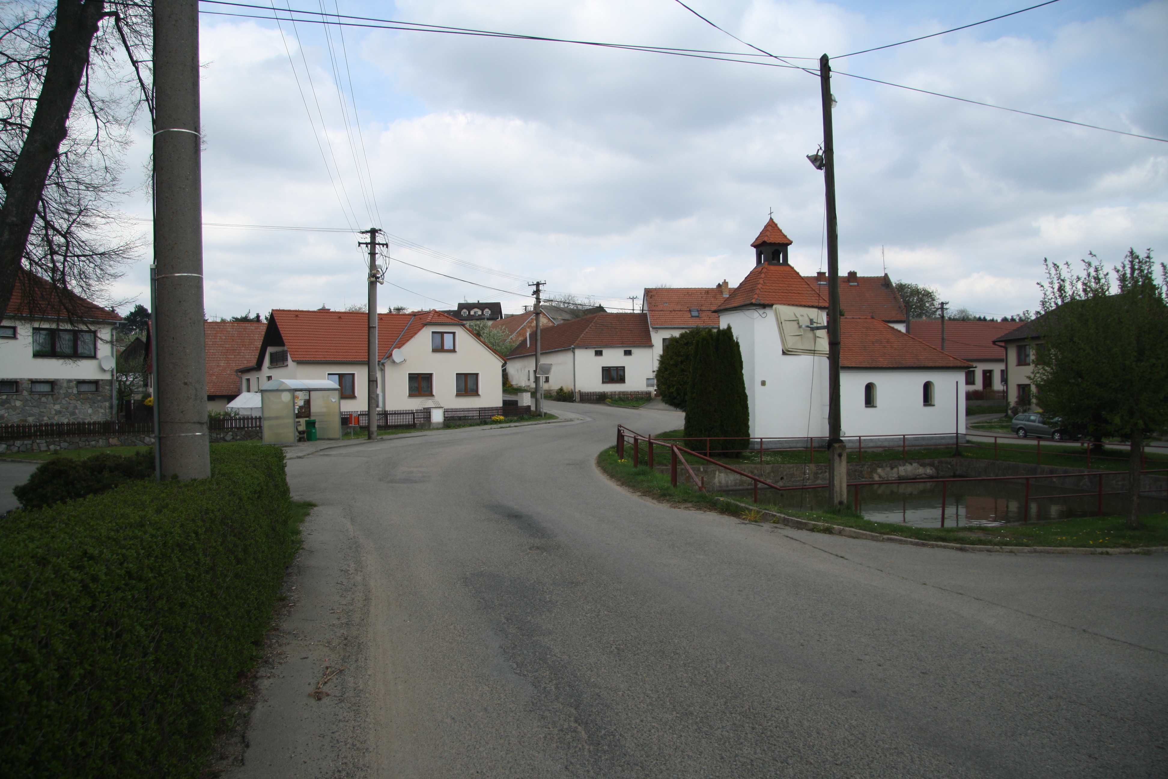 Center of Horní Lhotice, Kralice nad Oslavou.